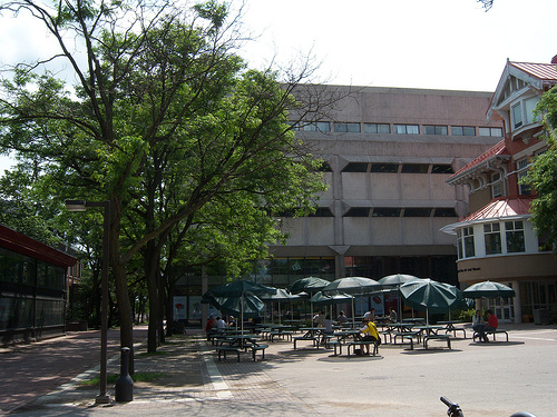 MacNaughton Building on the University of Guelph campus